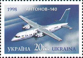 Stamp of Ukraine